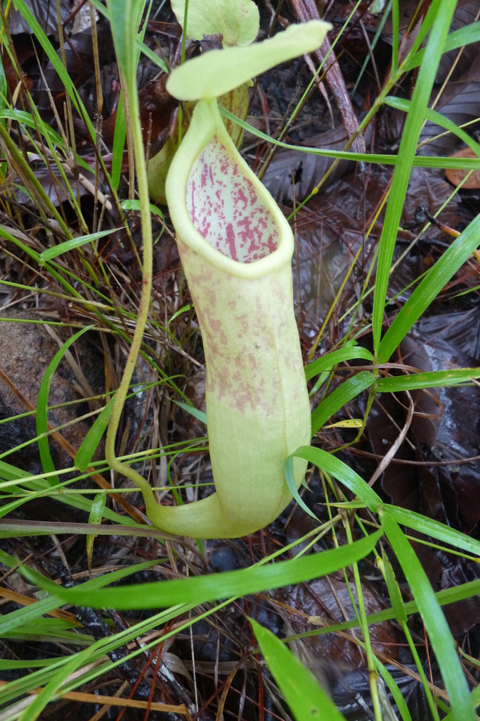 Nepenthes smilesii from Kirirom National Park, Cambodia (~700 m asl)